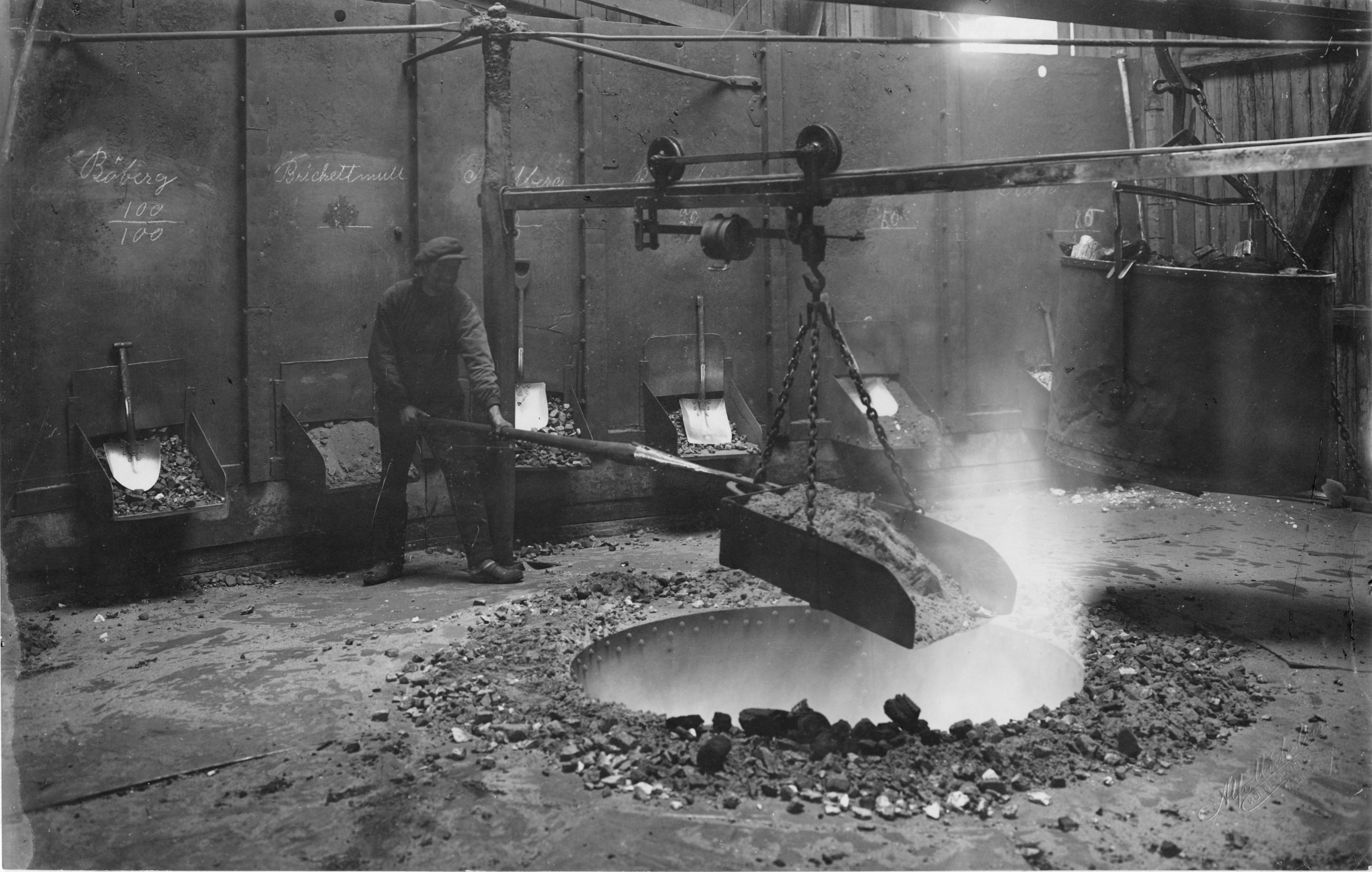 The top of blast furnace Dalkarlshyttan 1925 in Lindesberg, Sweden. At the top of a blast furnace charcoal, iron ore and limestone are entered into the blast furnace pipe. The iron ore is reduced and pours out at the bottom. After it has cooled down it is pig iron, which is the end product of the blast furnace.